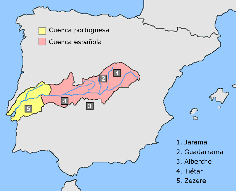 Map of Tagus river